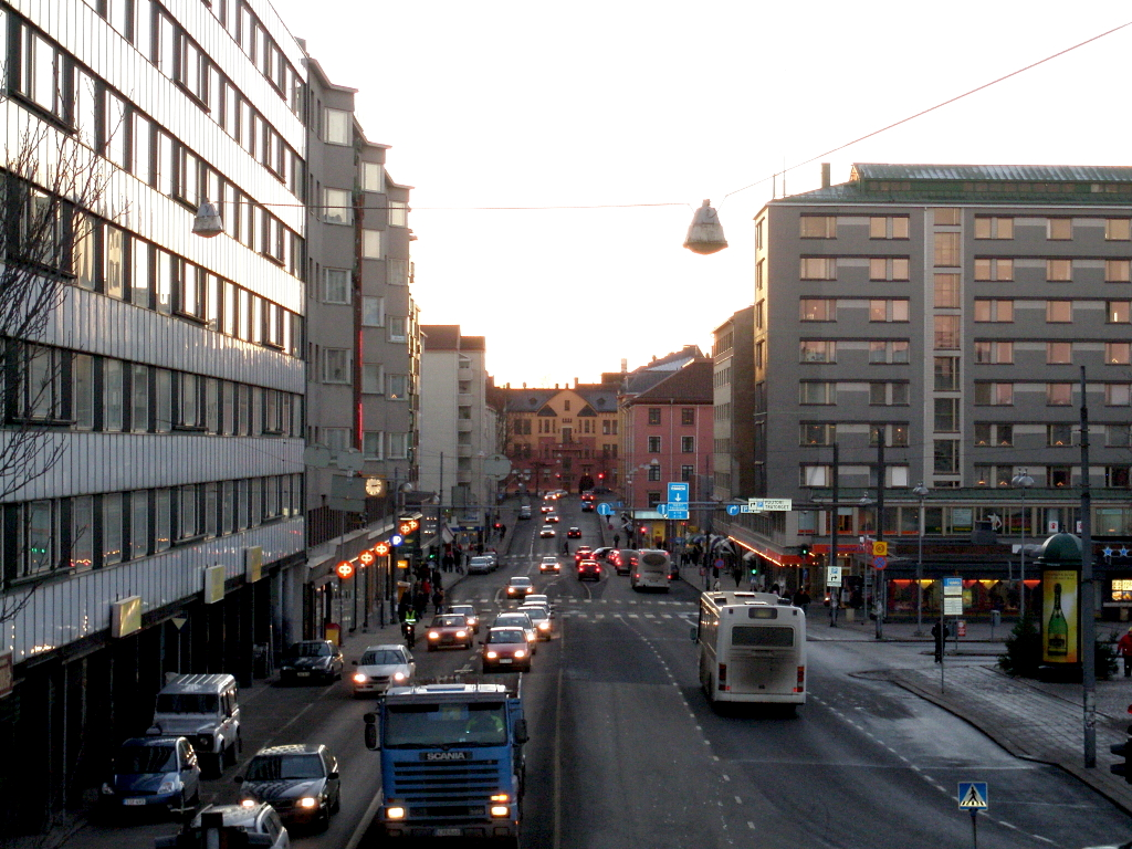 Mariankatu in Turku, City, Finland.